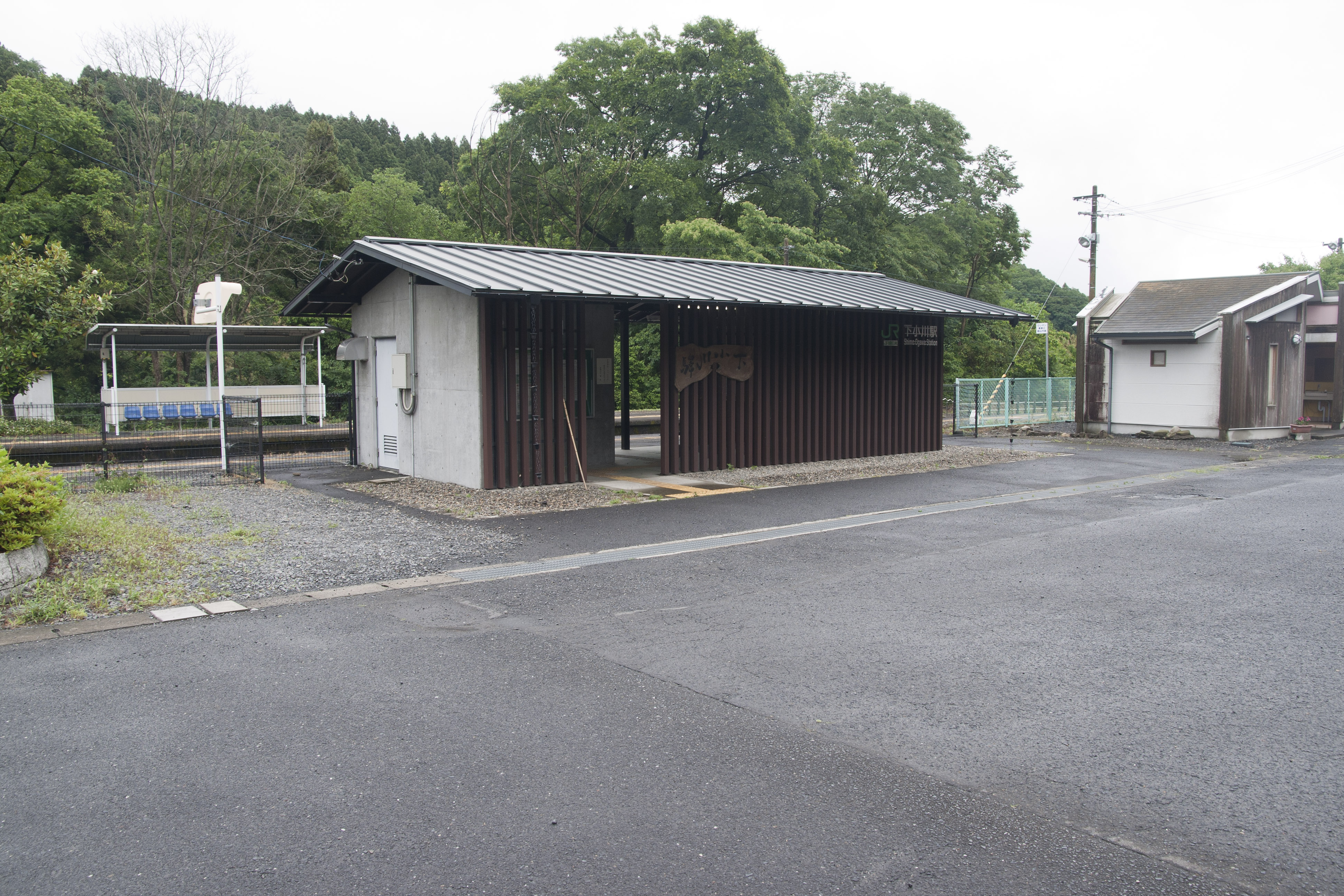 Shimo-Ogawa Station on the Suigun Line in Hitachi-Omiya, Ibaraki Prefecture, Japan